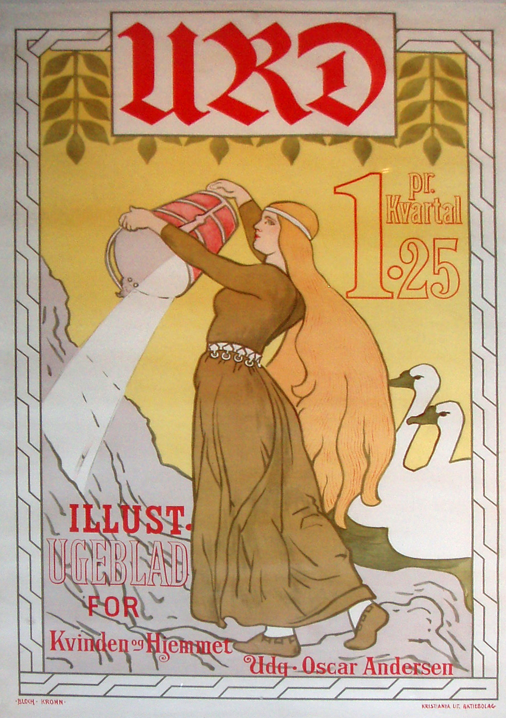 A poster for the Norwegian women's magazine Urd. The magazine was published between 1897 and 1958.